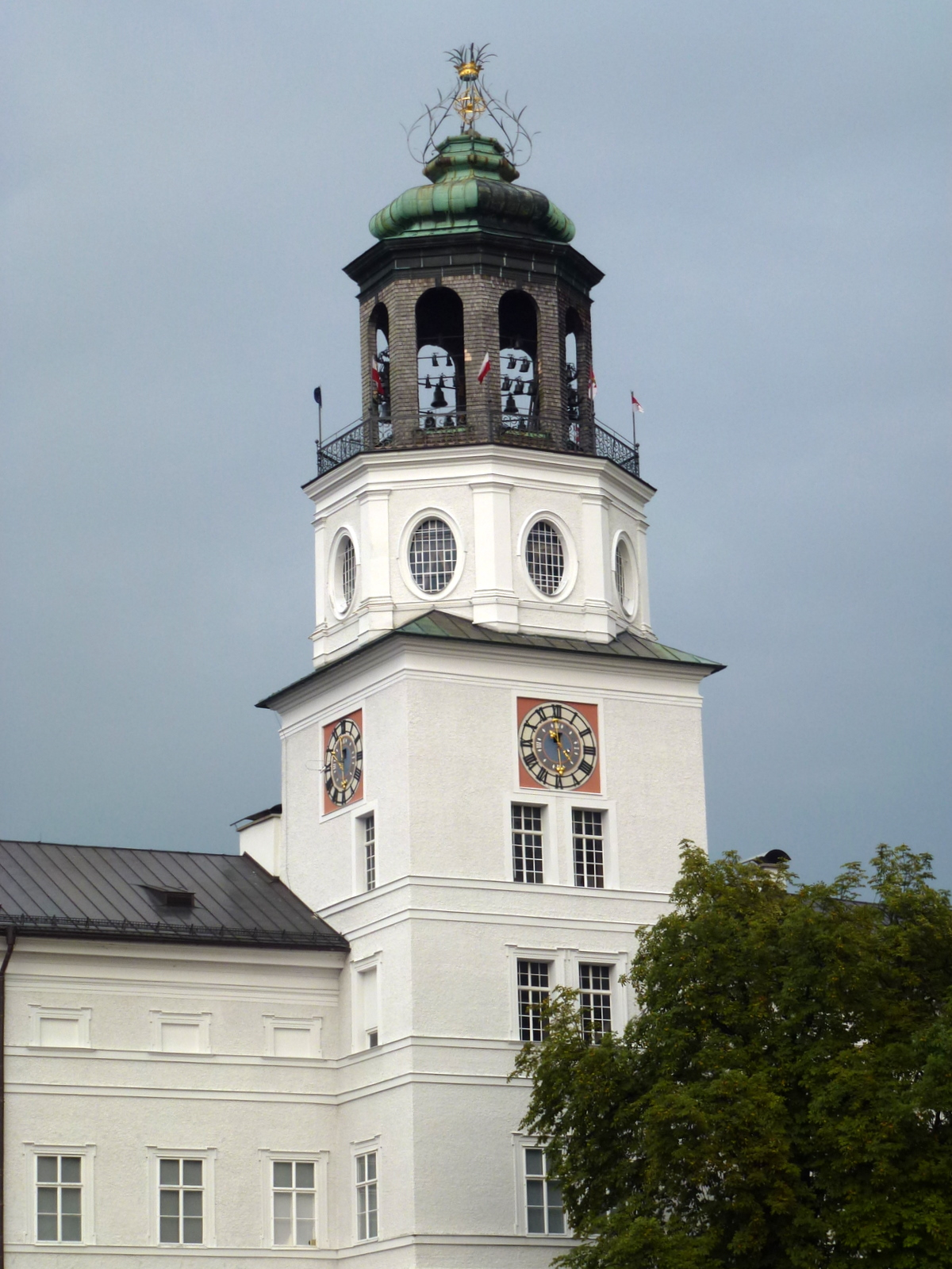 Glockenspiel (Salzburg)